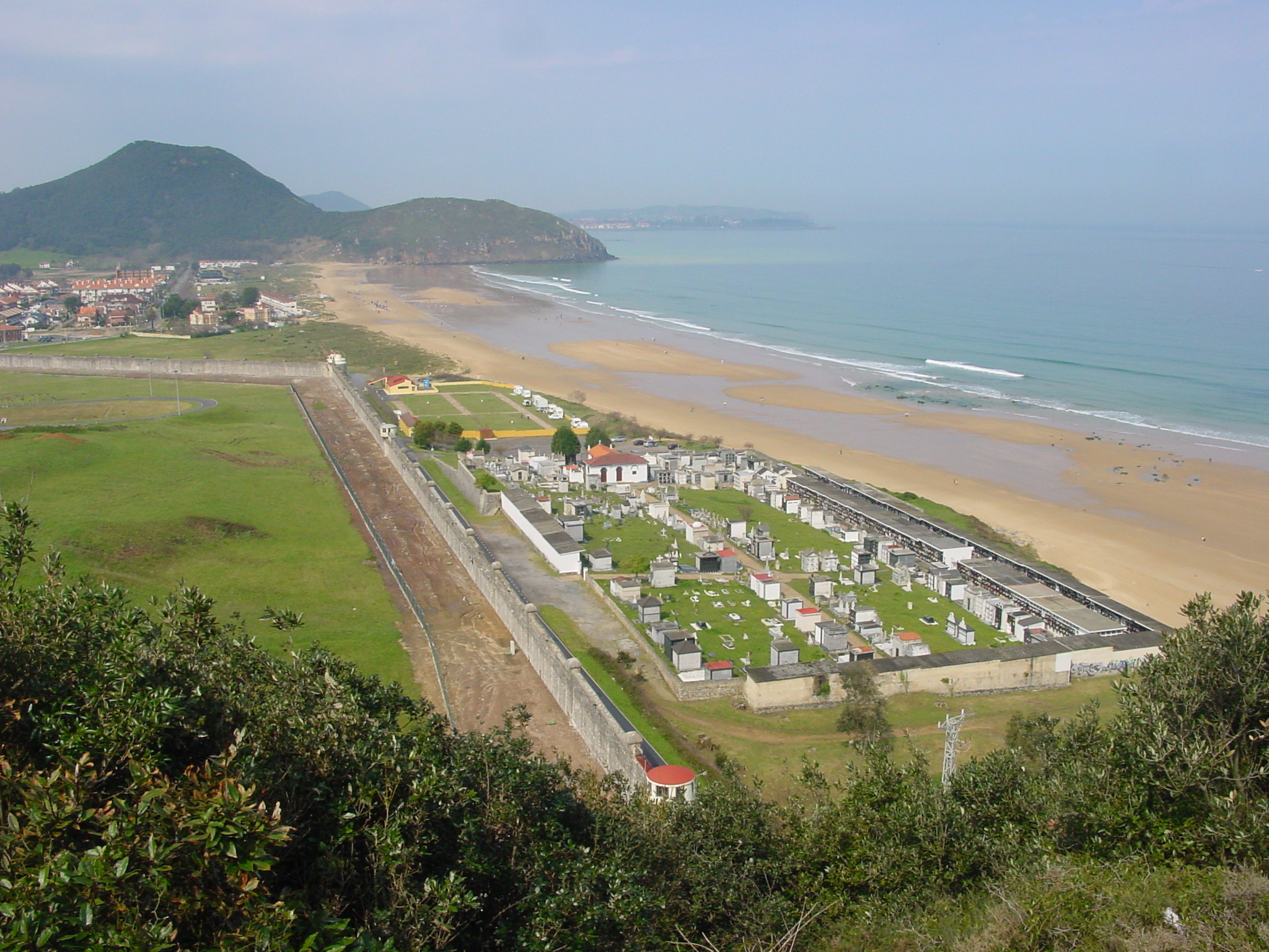 Santoña cemetery. Berria beach on the right. The wall of Dueso prison on the left.